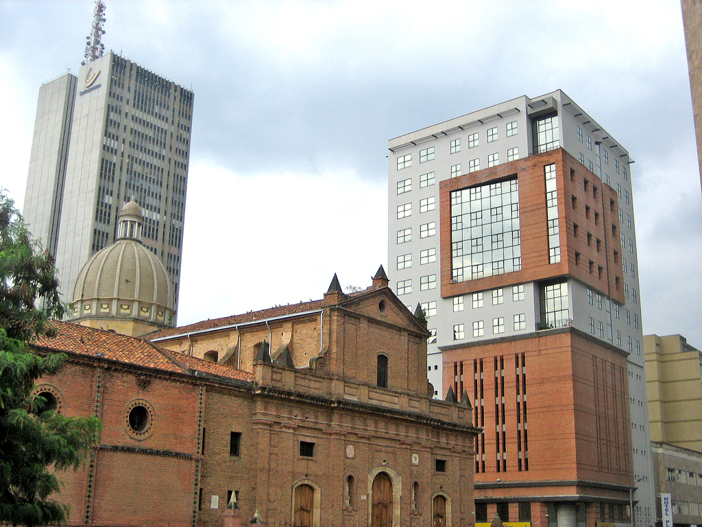 Description:Plaza de San francisco historical church placed on the San francisco's plaza. Location: Santiago de Cali. Author:User alekow.